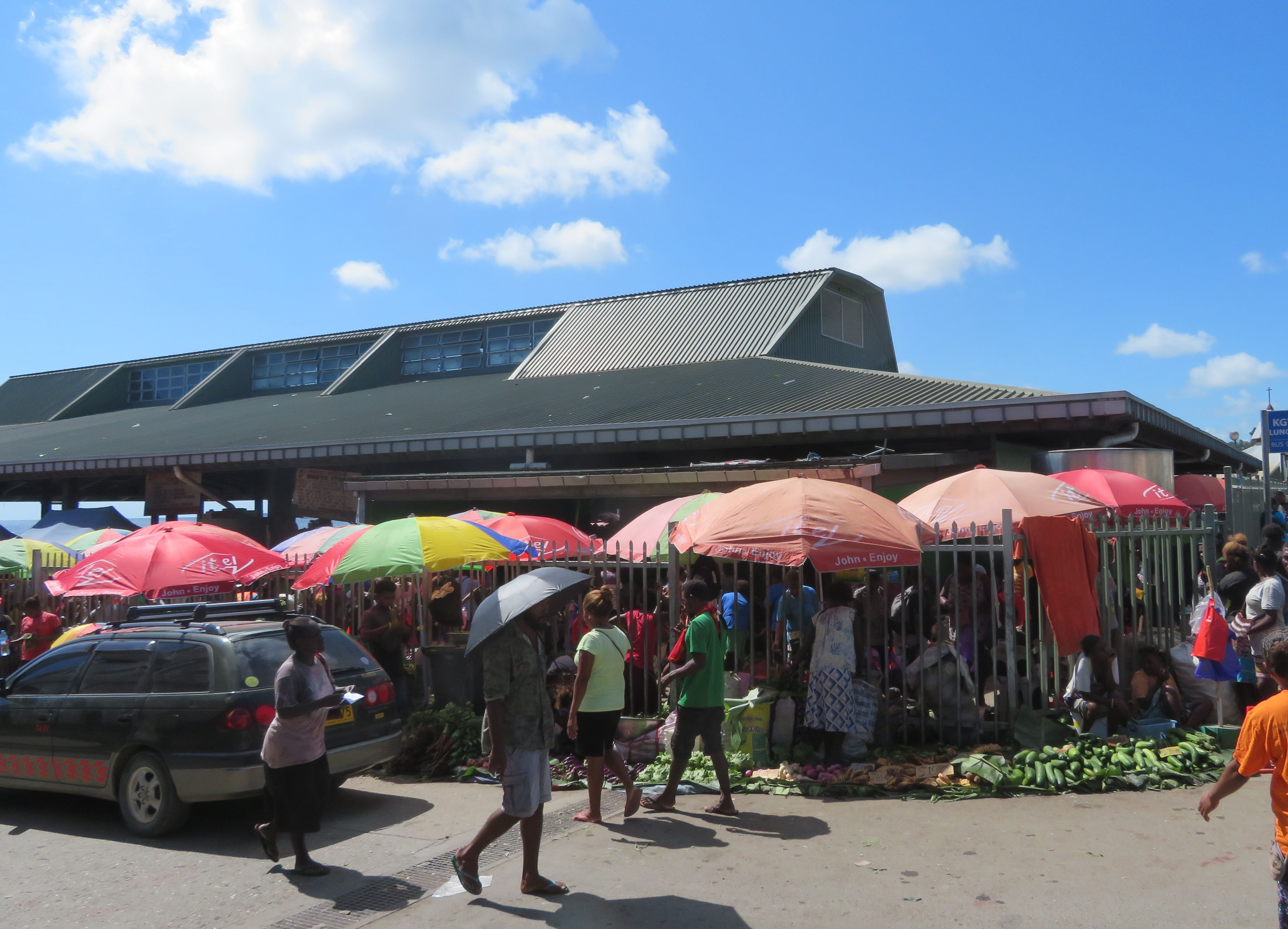 Central Market, Honiara, Solomon Islands